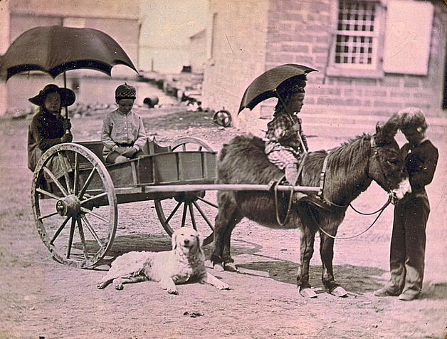 Tinted daguerreotype depicting the children of Lieutenant Montgomery C. Meigs, taken in Detroit, Michigan, USA, sometime in 1853. The Meigs family purchased the donkey from two French trapper/missionaries. Left to right: Mary Montgomery Meigs (born August 22, 1843), Charles Delucena Meigs (born January 5, 1845; died September 3, 1853), Vincent Trowbridge Meigs (born September 12, 1851; died October 28, 1853), and John Rodgers Meigs (born February 9, 1852).